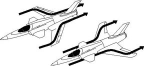 NASA illustration of airflow over forward-swept wings.